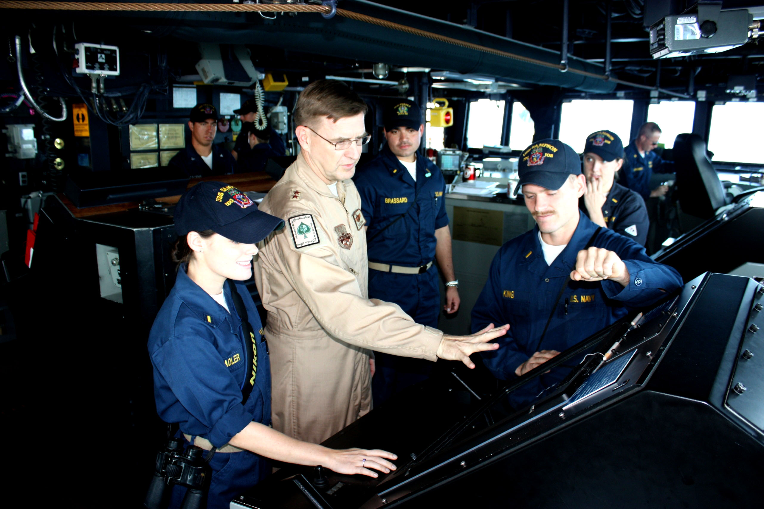 GULF OF OMAN (Dec. 7, 2009) Air Force Major Gen. Stephen L. Hoog, deputy commander of U.S. Air Forces Central Command and vice commander, 9th Air Expeditionary Task Force, Air Combat Command, Southwest Asia, discusses the use of surface RADAR in tactical navigation with Ensign Caroline Adler, left, and Ensign Travis King aboard the guided-missile destroyer USS Sampson (DDG 102). Sampson is part of the Nimitz Carrier Strike Group on a scheduled deployment in the U.S. 5th Fleet area of responsibility. (U.S. Navy photo by Lt. j.g. Natalie Alford/Released)